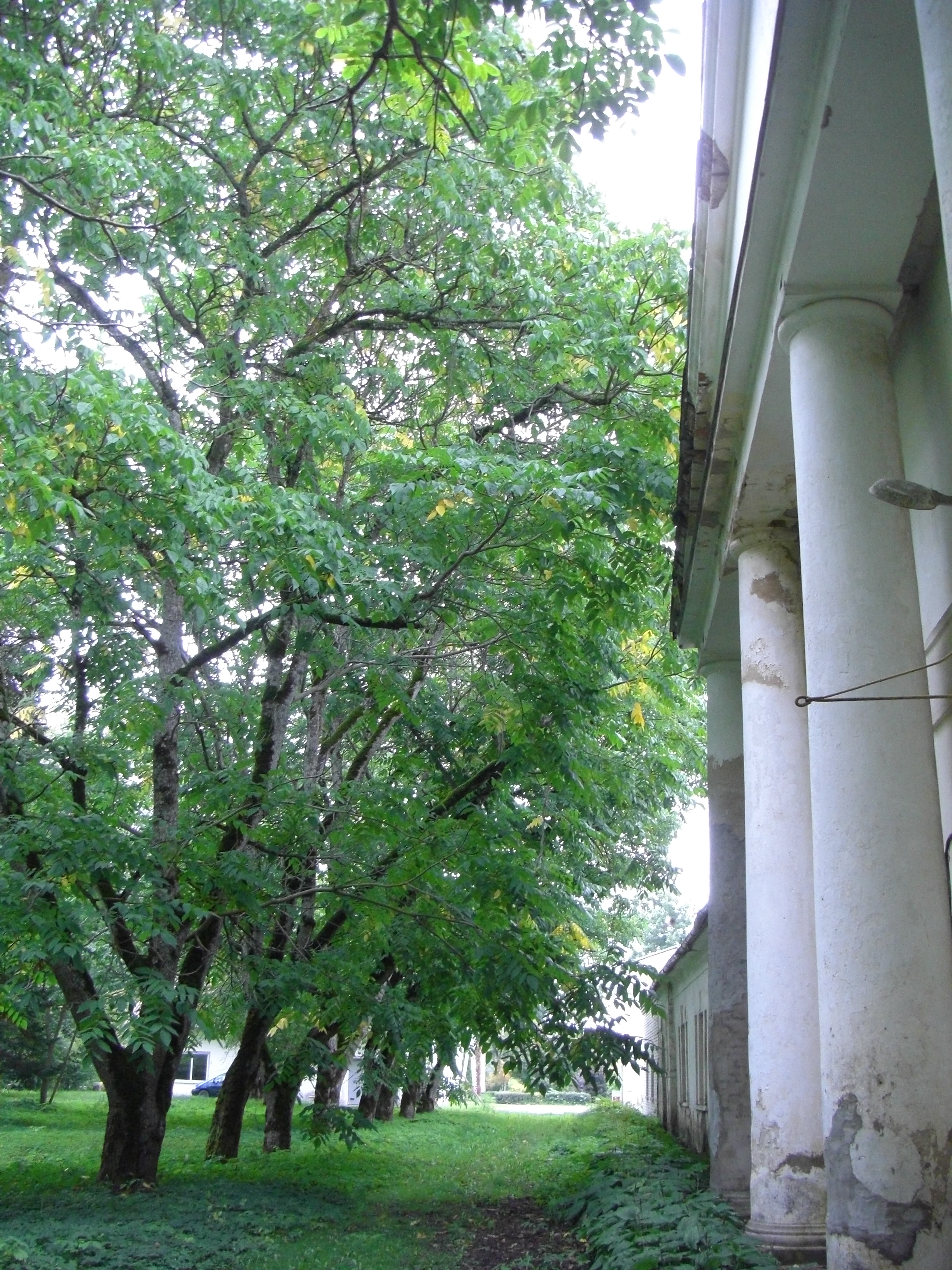 A line of mandshurian walnut trees in front of the coach house of Cīrava Palace, Latvia.